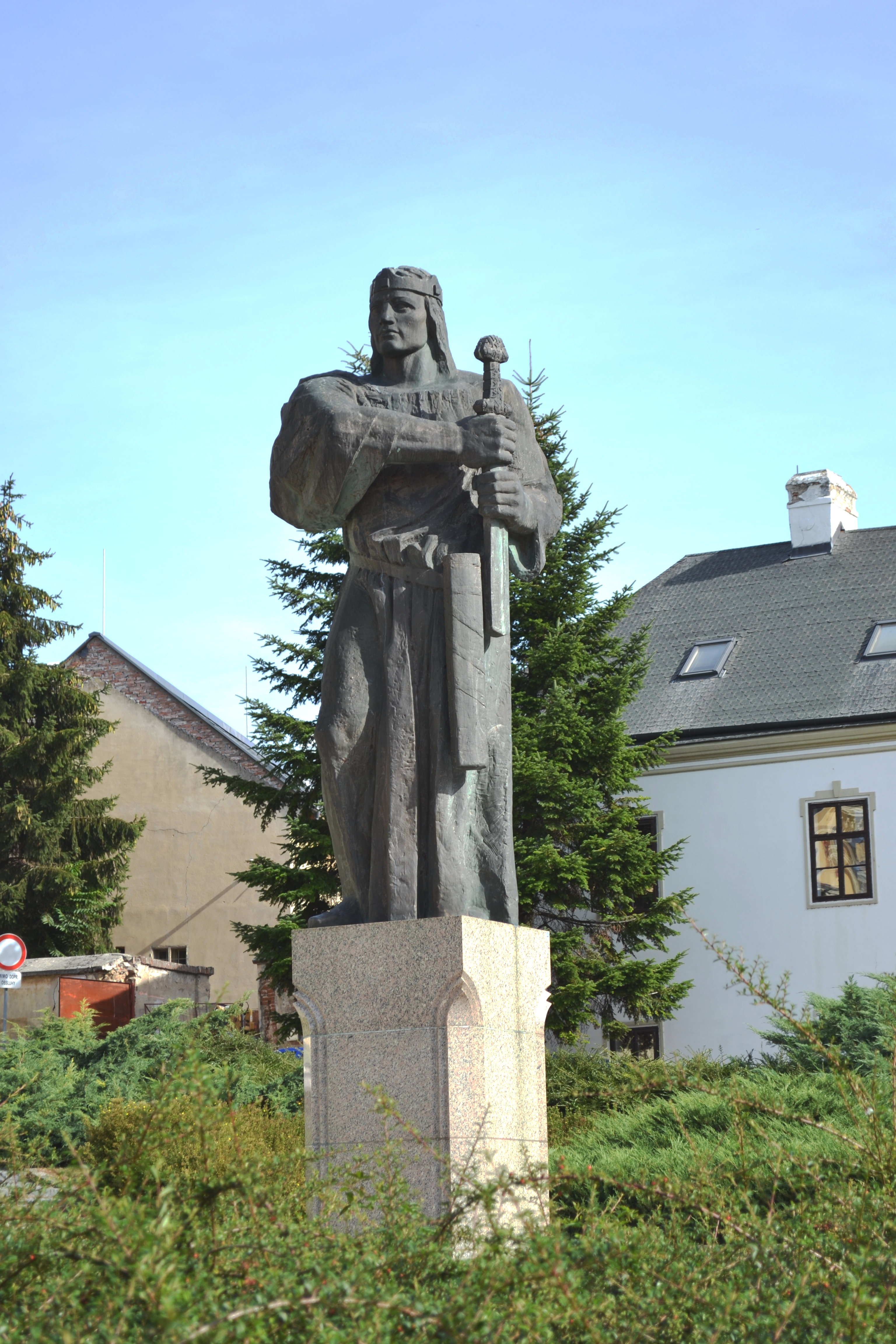 The statue of Pribina in NitraSlovenčina: Socha Pribinu v Nitre